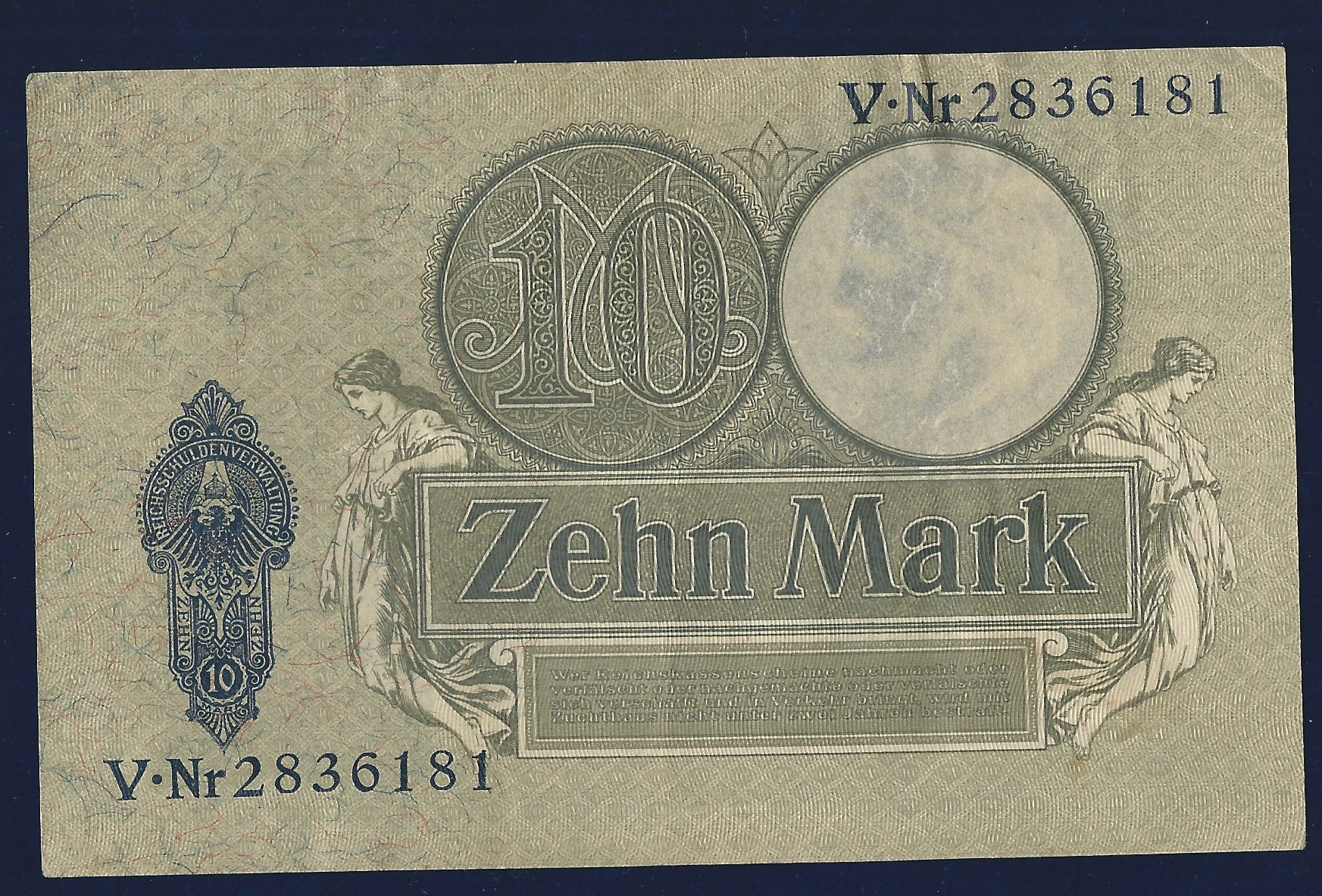 German 10 Mark 1906 Reichskassenschein. Reichsschuldenverwaltung Berlin 6 October 1906. 7 digit serial number. Pick 9b. Design: Alexander Zick, 1845 Koblenz – 1907 Berlin Condition: High grade: Almost EXTREMELY FINE. No hidden faults.